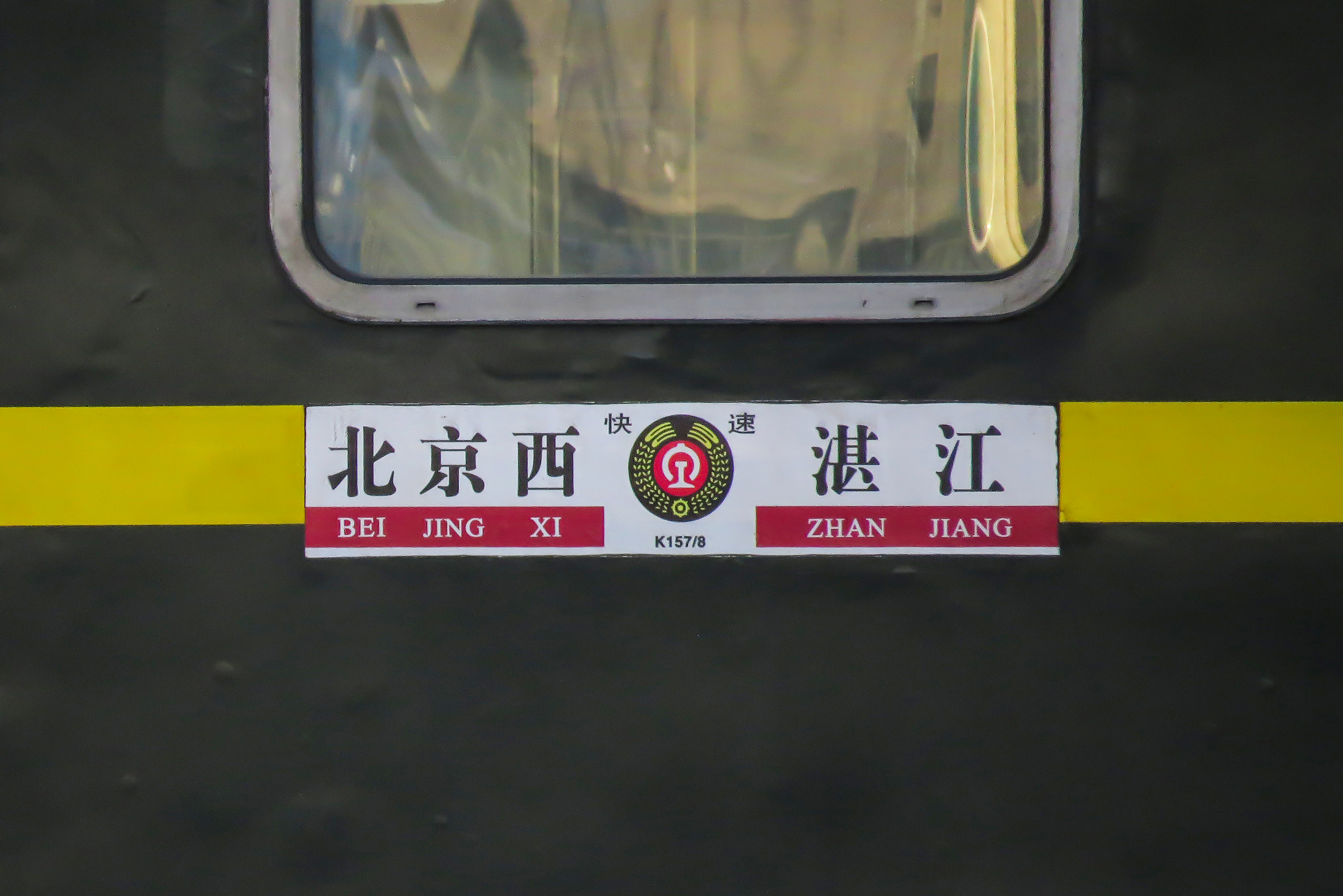 There was a "naughties" story about K157 in January 2016, resulted in a discussion about "naughty parents".